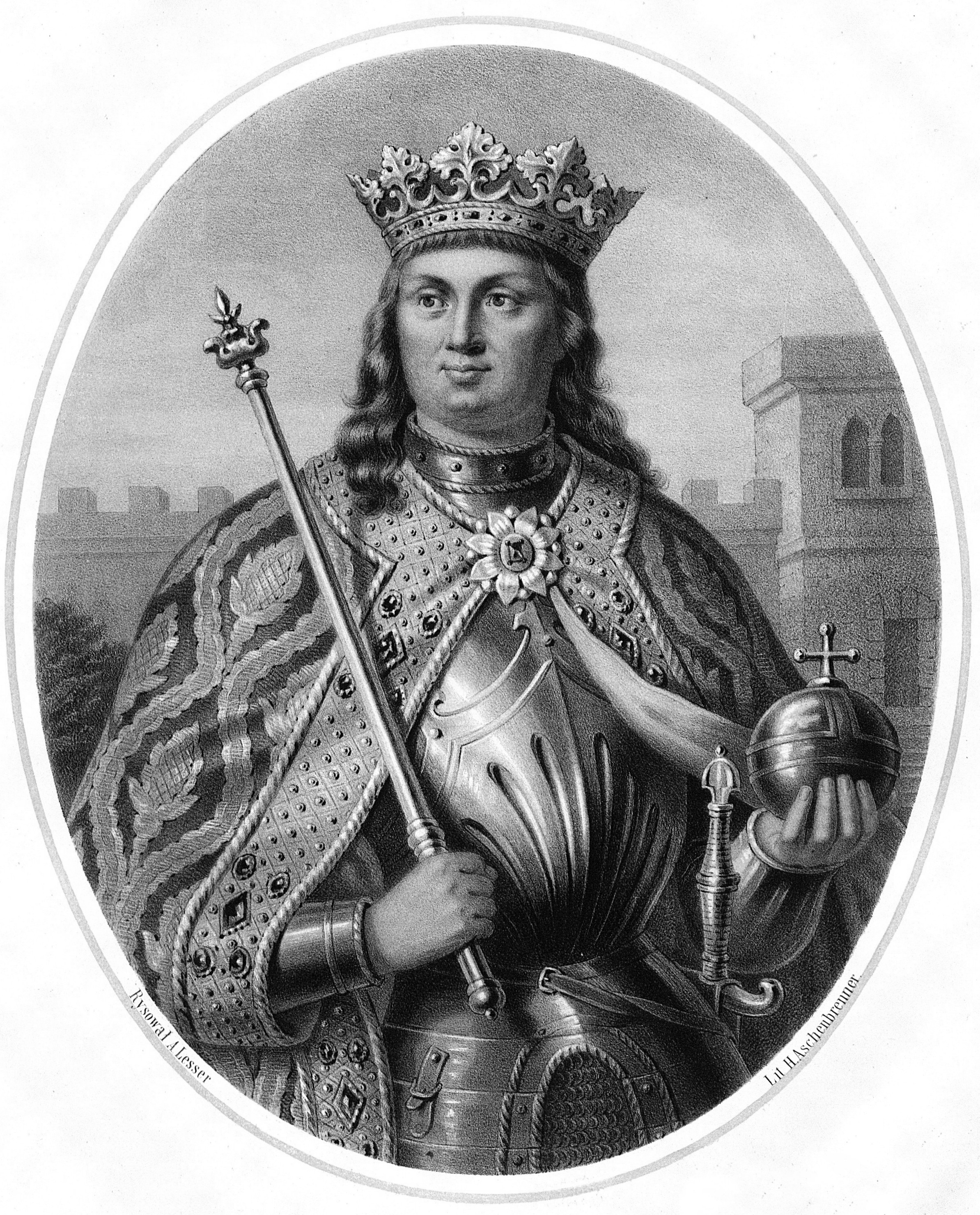 John Albert, King of Poland